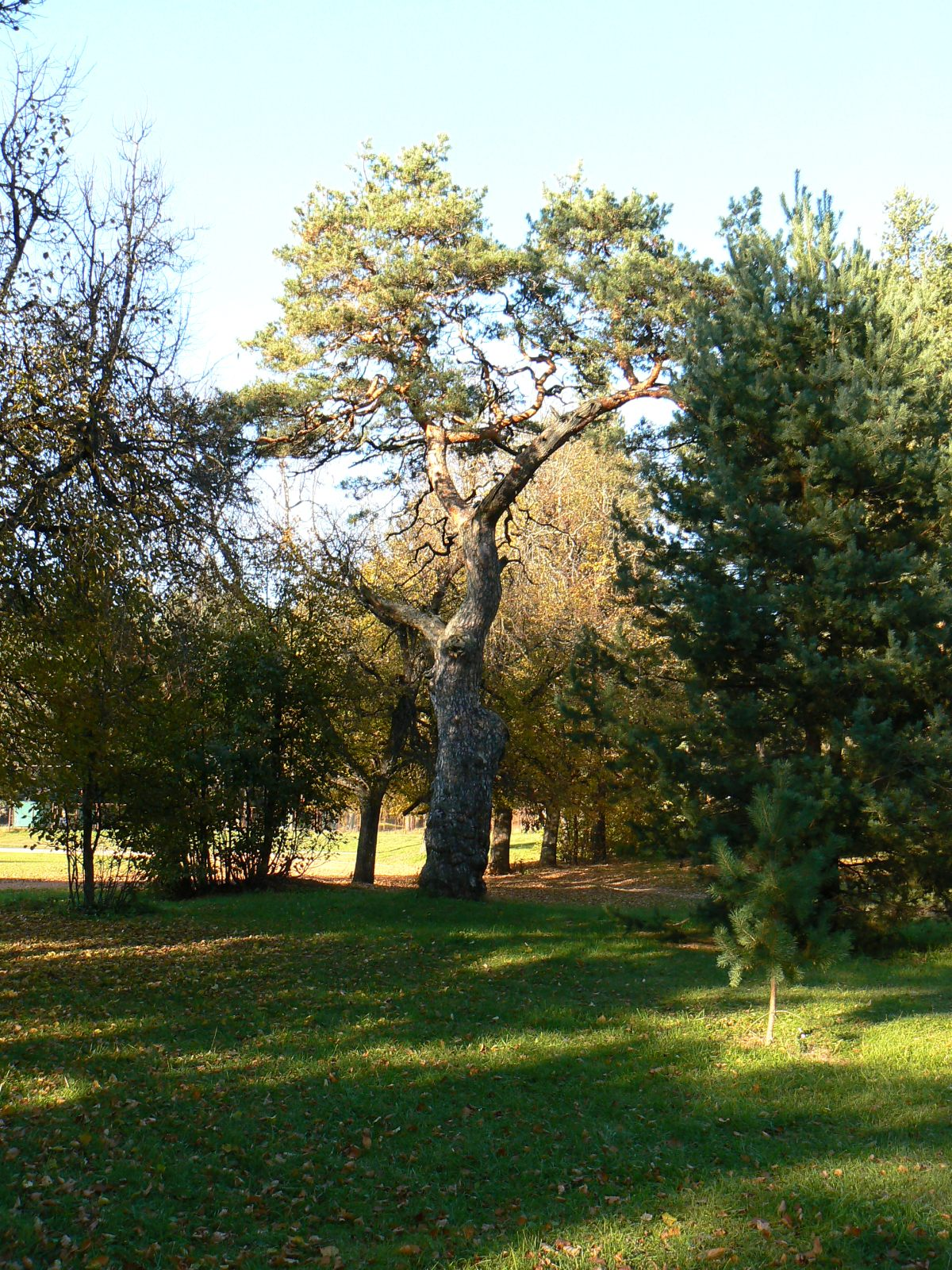 The Peetri pine in Estonia